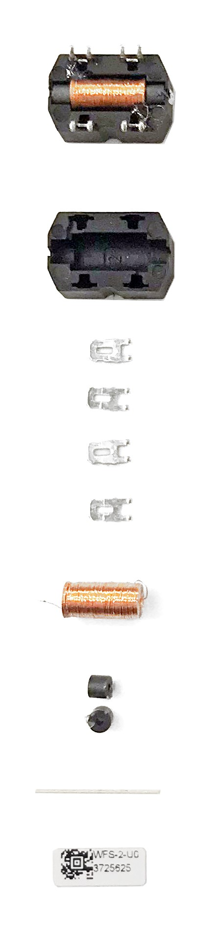 A Wiegand Sensor as well as the different parts needed to produce this sensor.